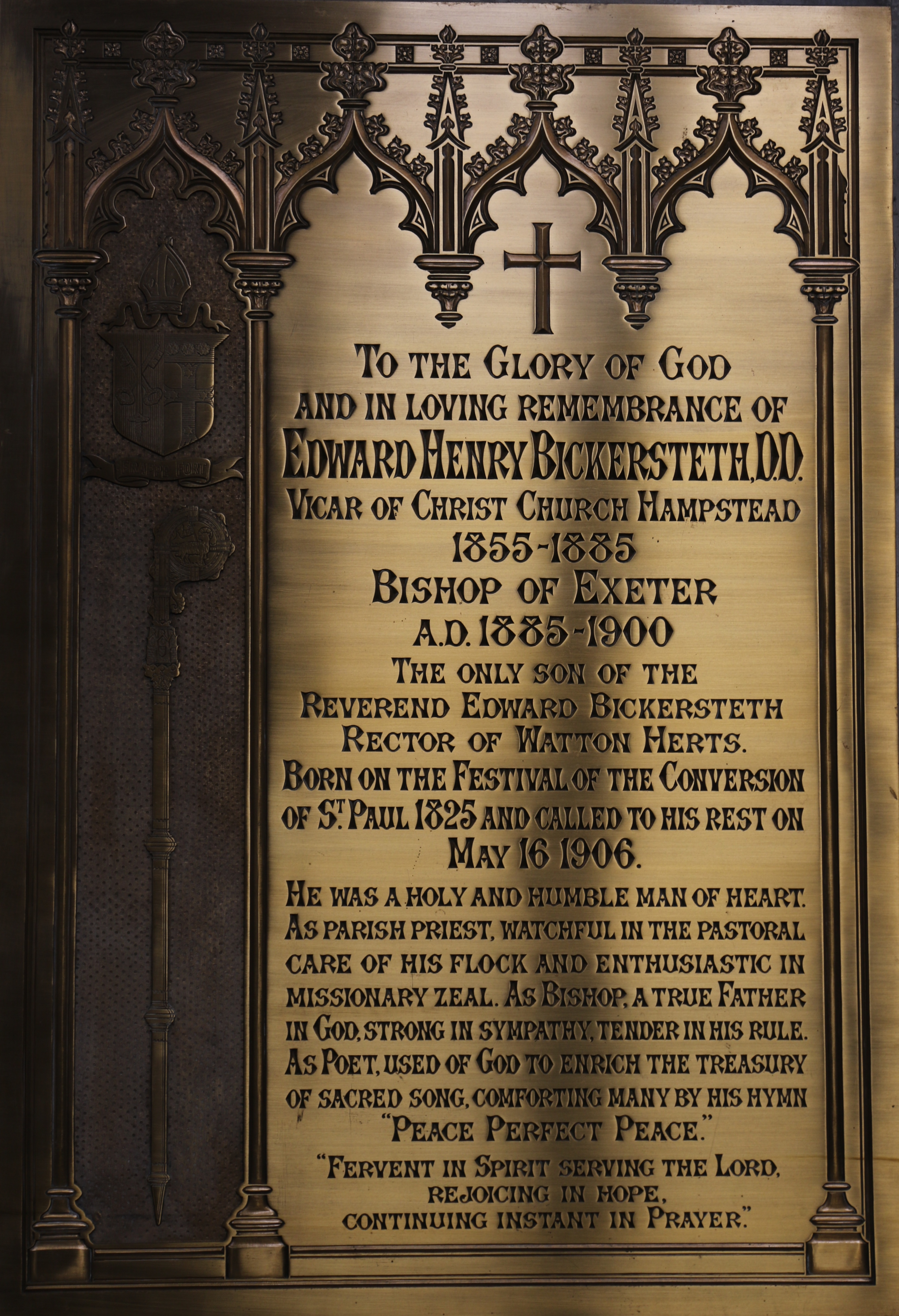 Vicar of Christ Church Hampsted 1855 - 1885 Bishop of Exeter 1885 - 1900.